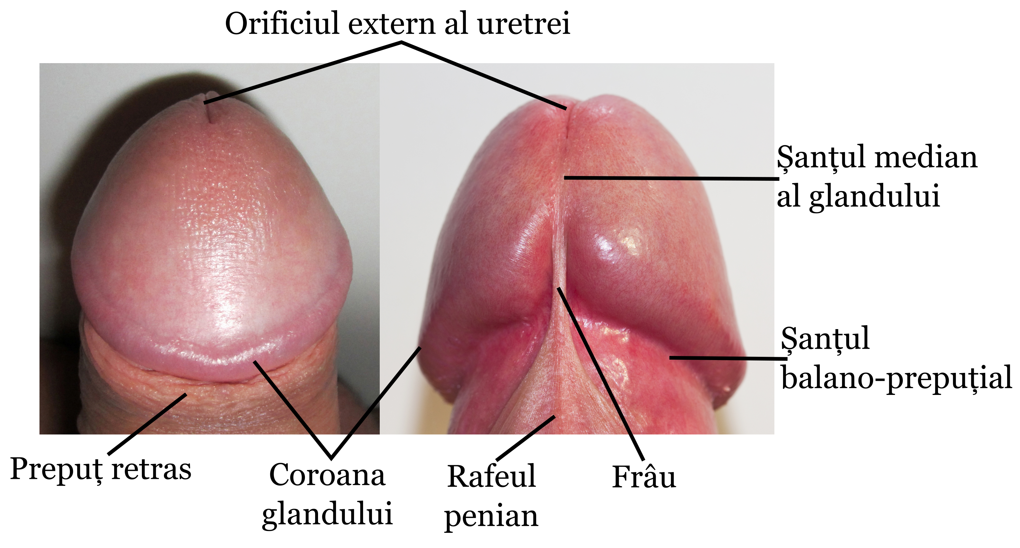 Glans penis in romania